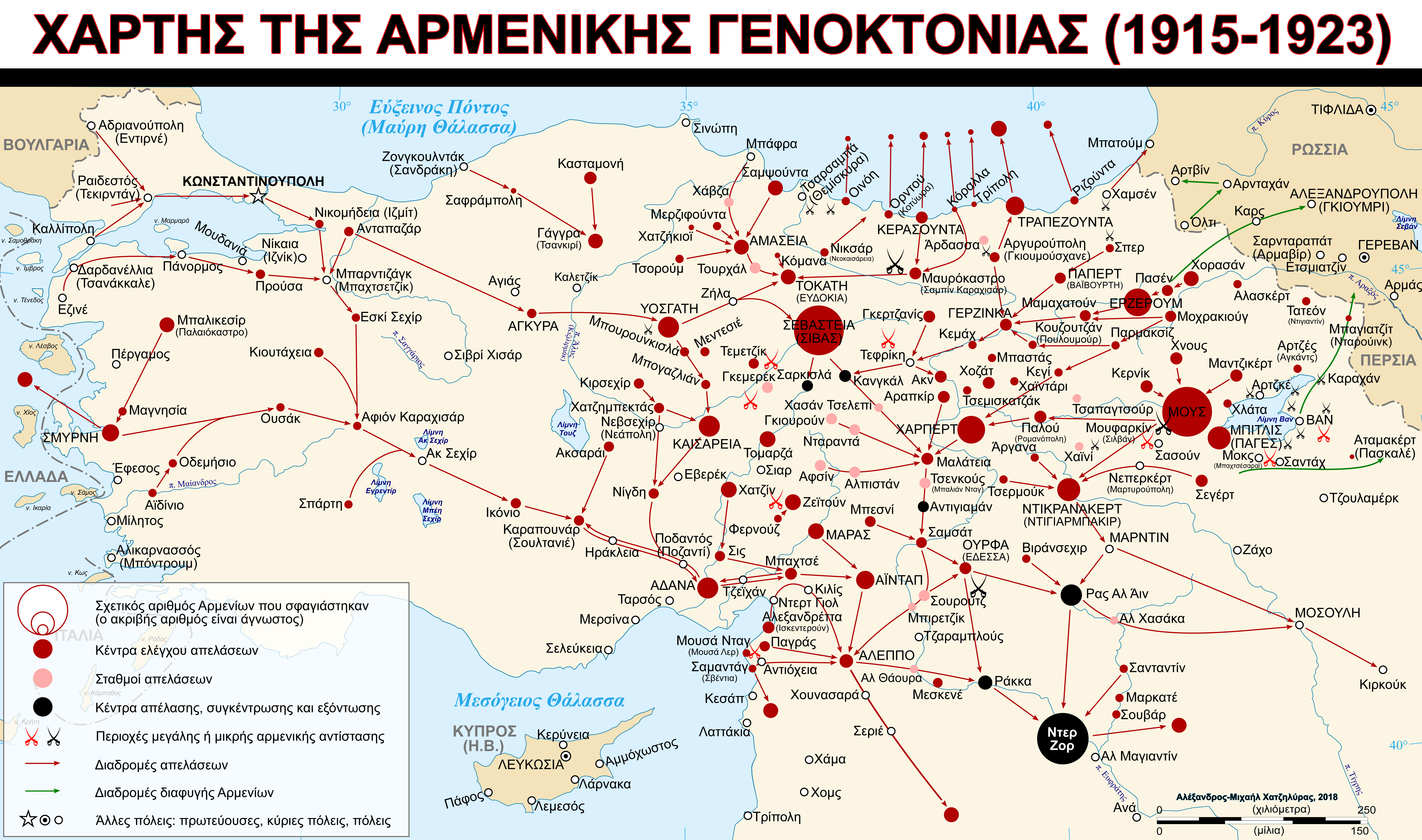 Map of the Armenian Genocide in Greek